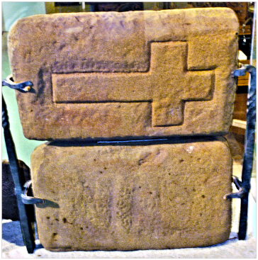 Peralta Stones reverse side revealing the Stone Cross outline and the word DON.